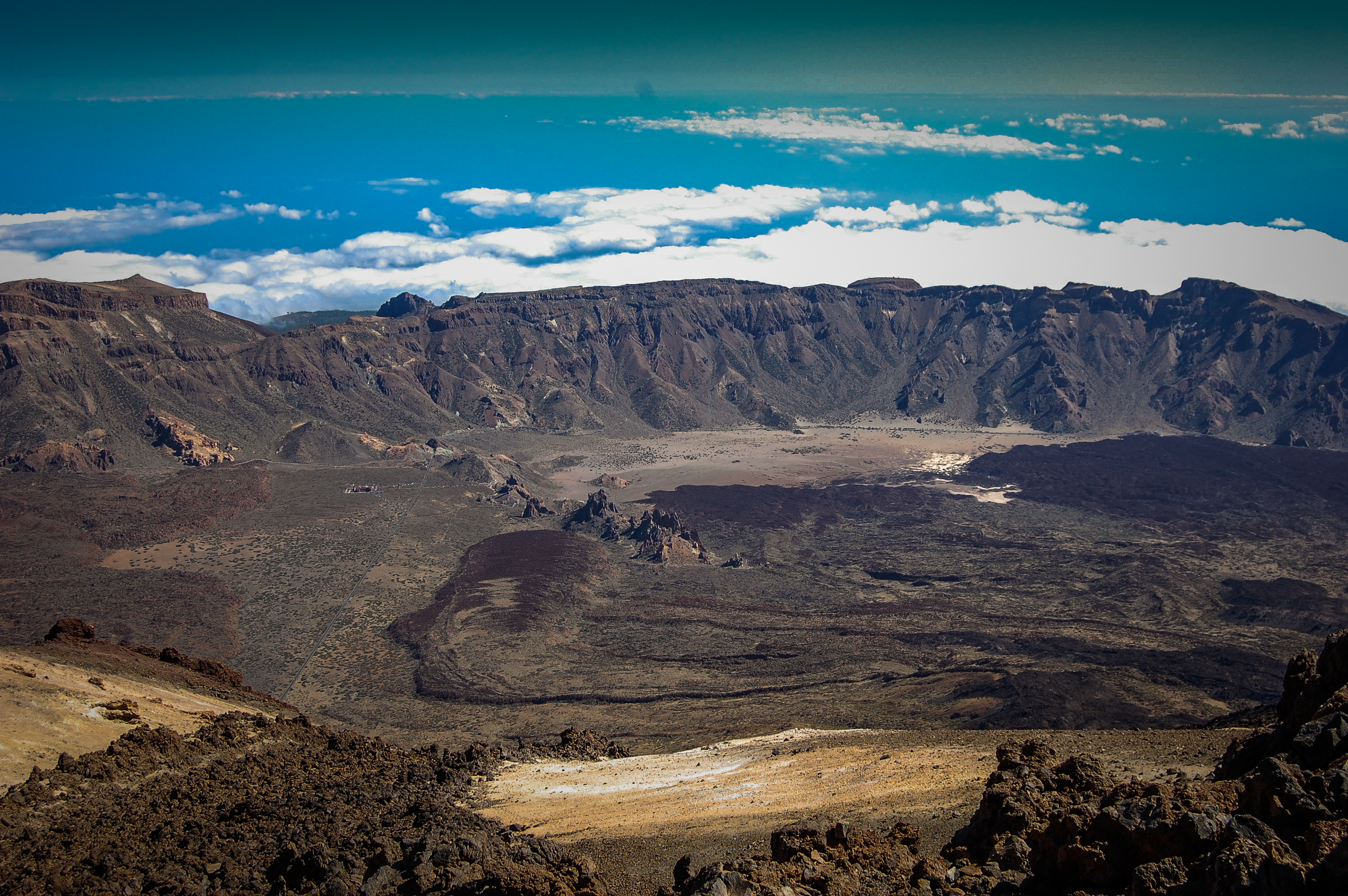 Las Cañadas del Teide en todo su esplendor. LIC=ES7020043 This is a photography of a Site of Community Importance in Spain with the ID: ES7020043. Natura2000 entry, EEA entry